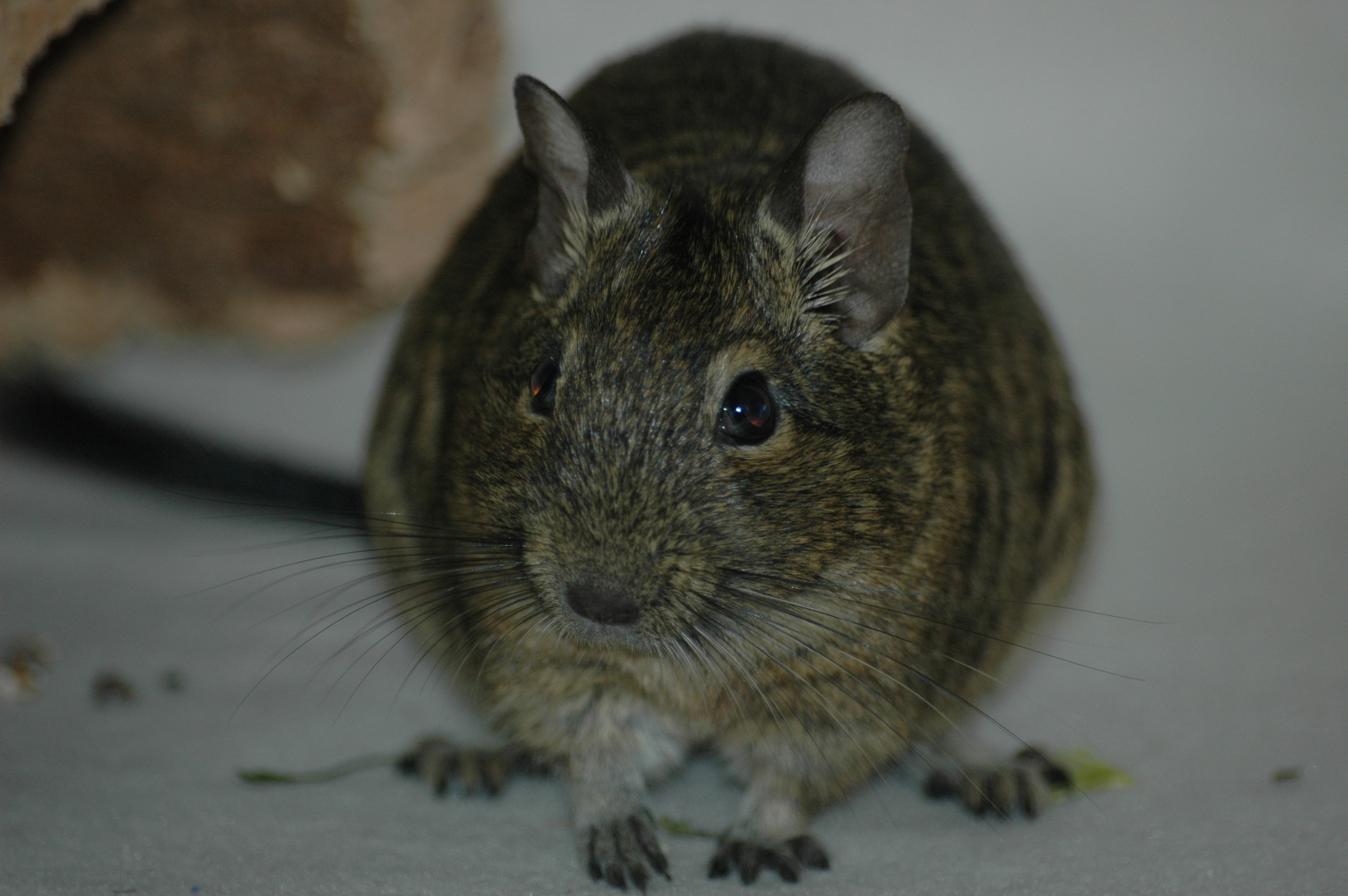 Degu (Octodon degus), 55294 Bodenheim, Germany